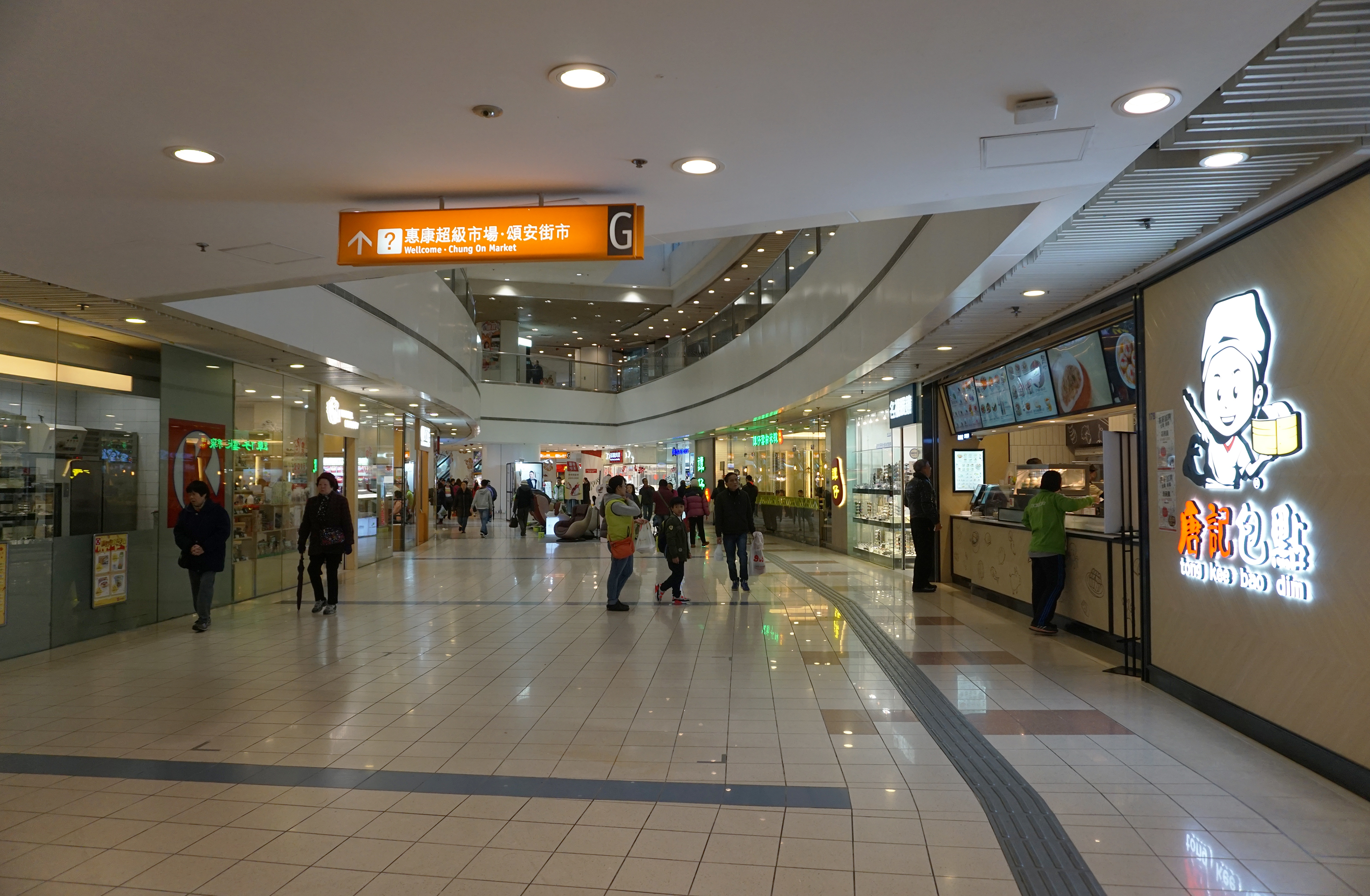 Chung On Shopping Centre in Heng On, Hong Kong.